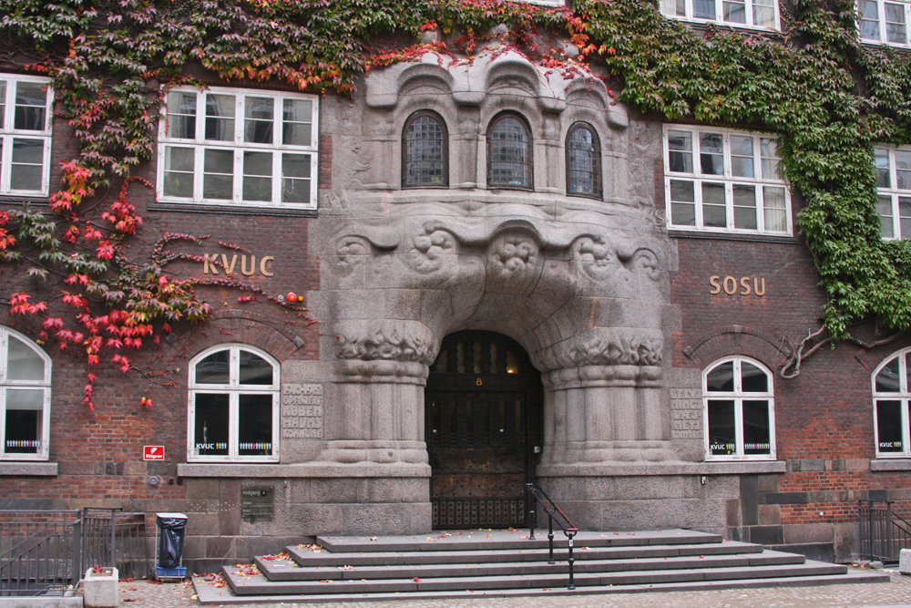 The main entance of Københavns Belysningsvæsen's building on Gothersgade (main entrance faces a parallel street, Vognmagergade) in Copenhagen, Denmark. The design was inspired by Copenhagen's Coat of Arms